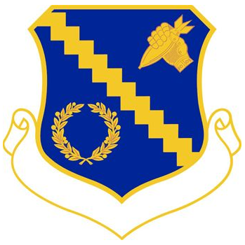 Emblem of the Nevada Test and Training Range